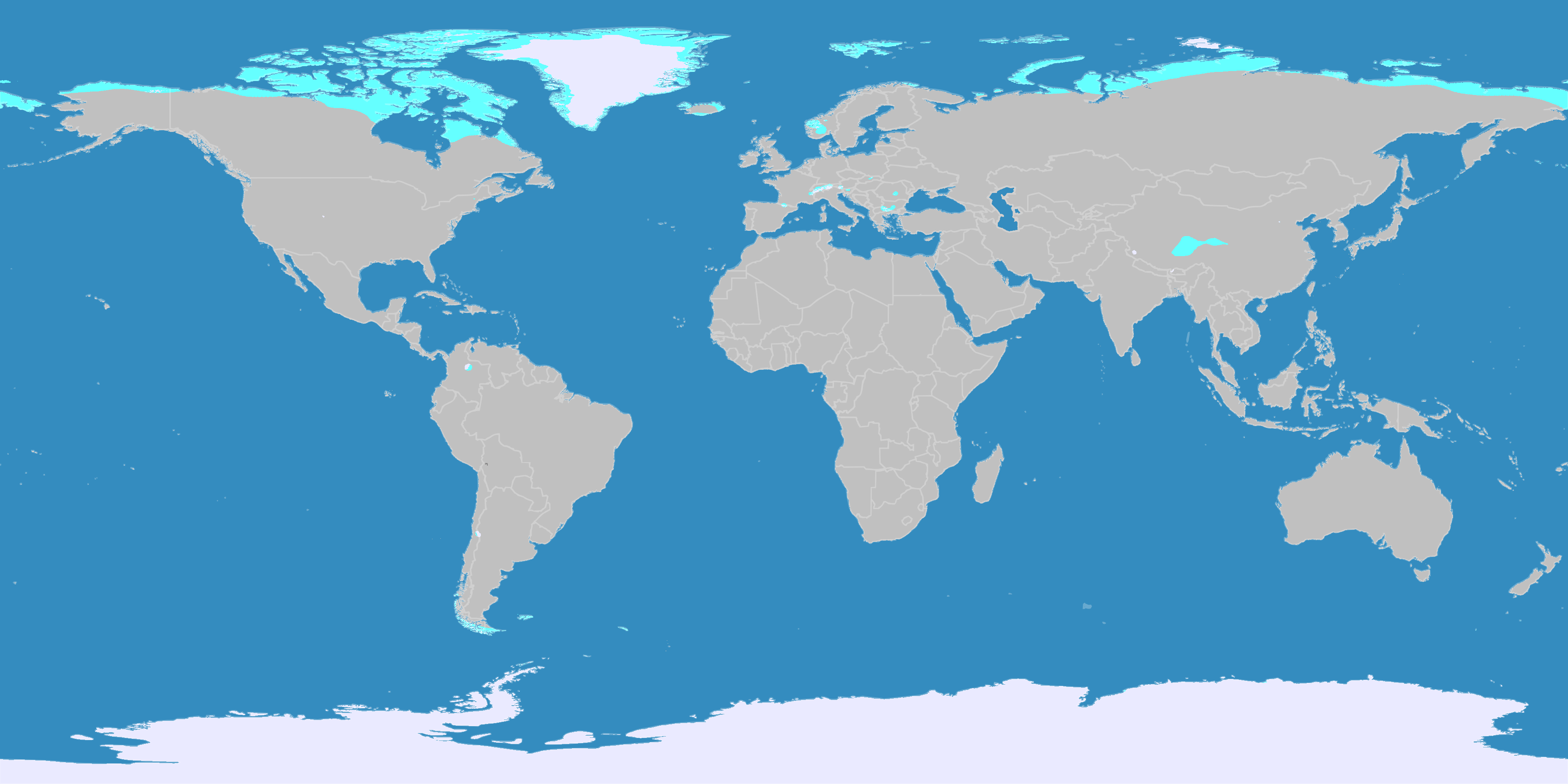 This map shows the Earth zones with a polar climate. Ice cap climate Tundra climate